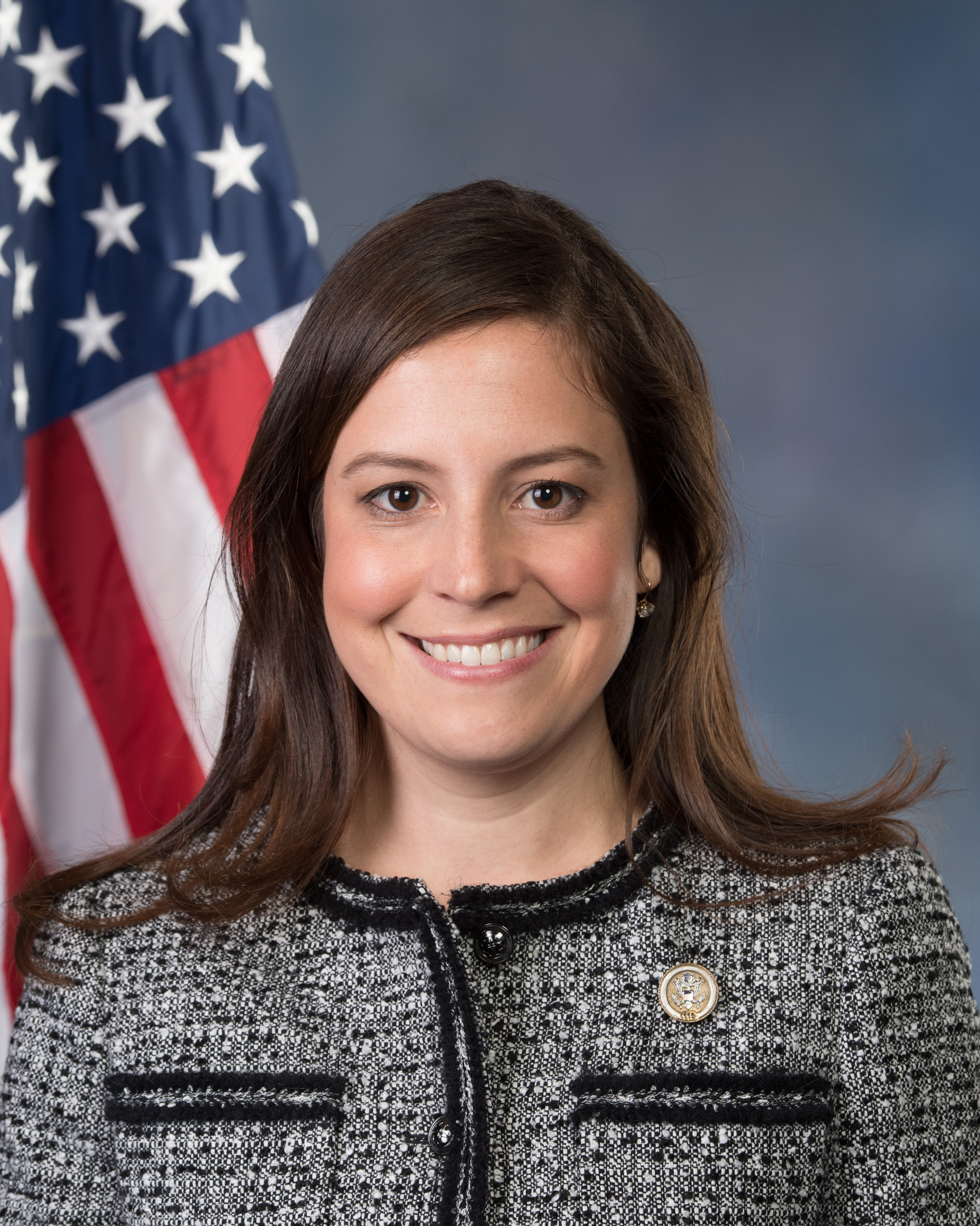 US Representative Elise Stefanik (R-NY) official 115th Congress portrait